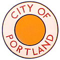 "Drumhead" logo from the UP City of Portland passenger train.